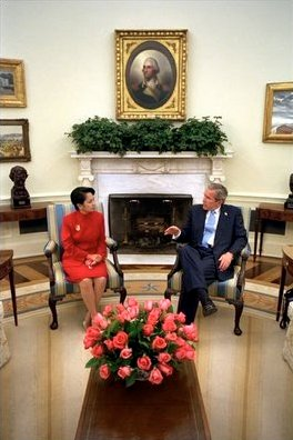 Proceeding from public ceremony to private talks, Philippine President Gloria Macapagal-Arroyo and President George W. Bush meet in the Oval Office Monday, May 19, 2003.